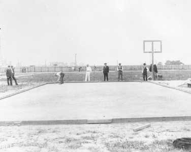 Roque competition during 1904 Summer Olympics